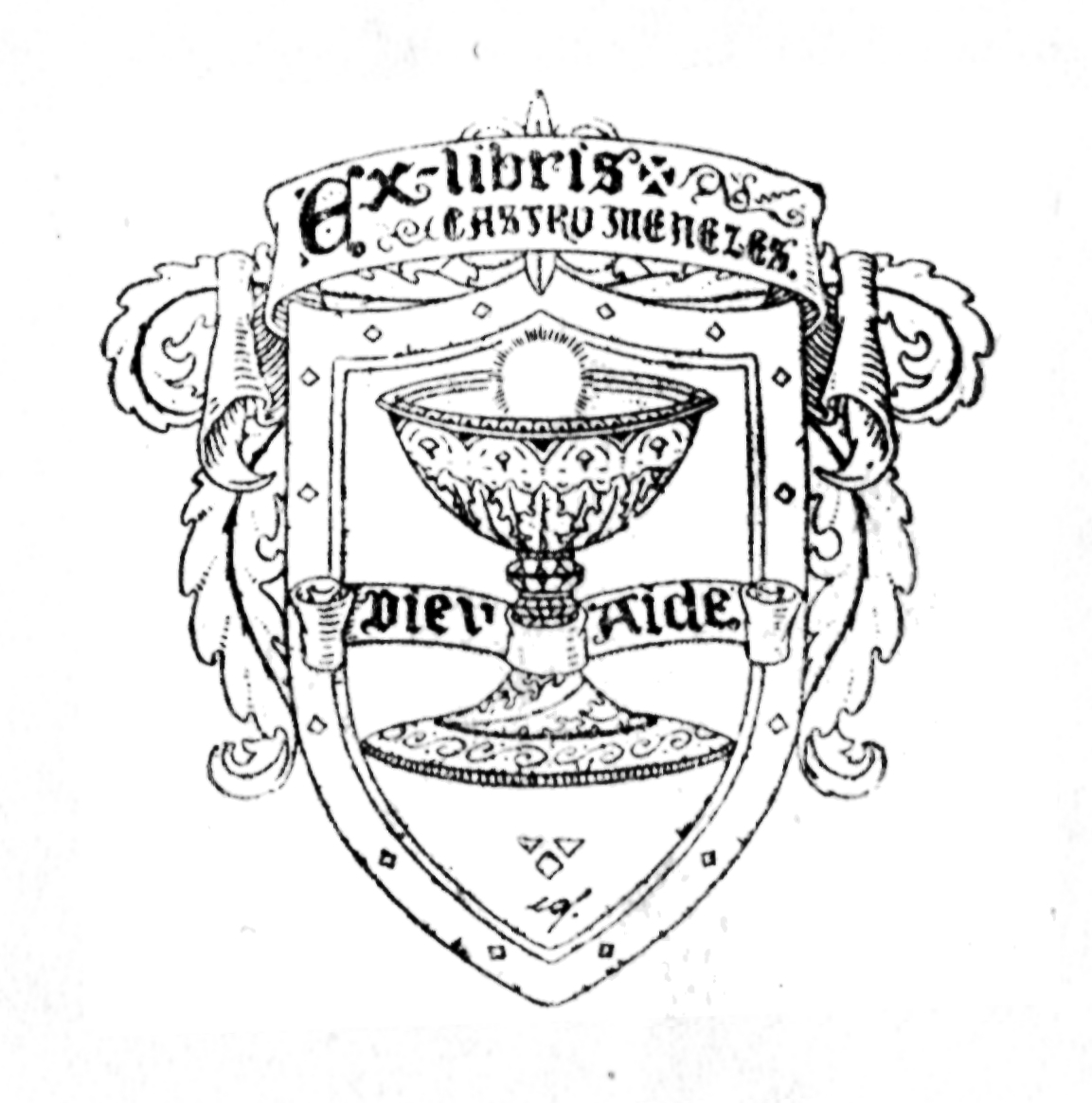 Ex-Libris of the Brazilian poet Castro Menezes, published on page 5 of his posthumous book "Estrada de Damasco" (Road of Damascus)